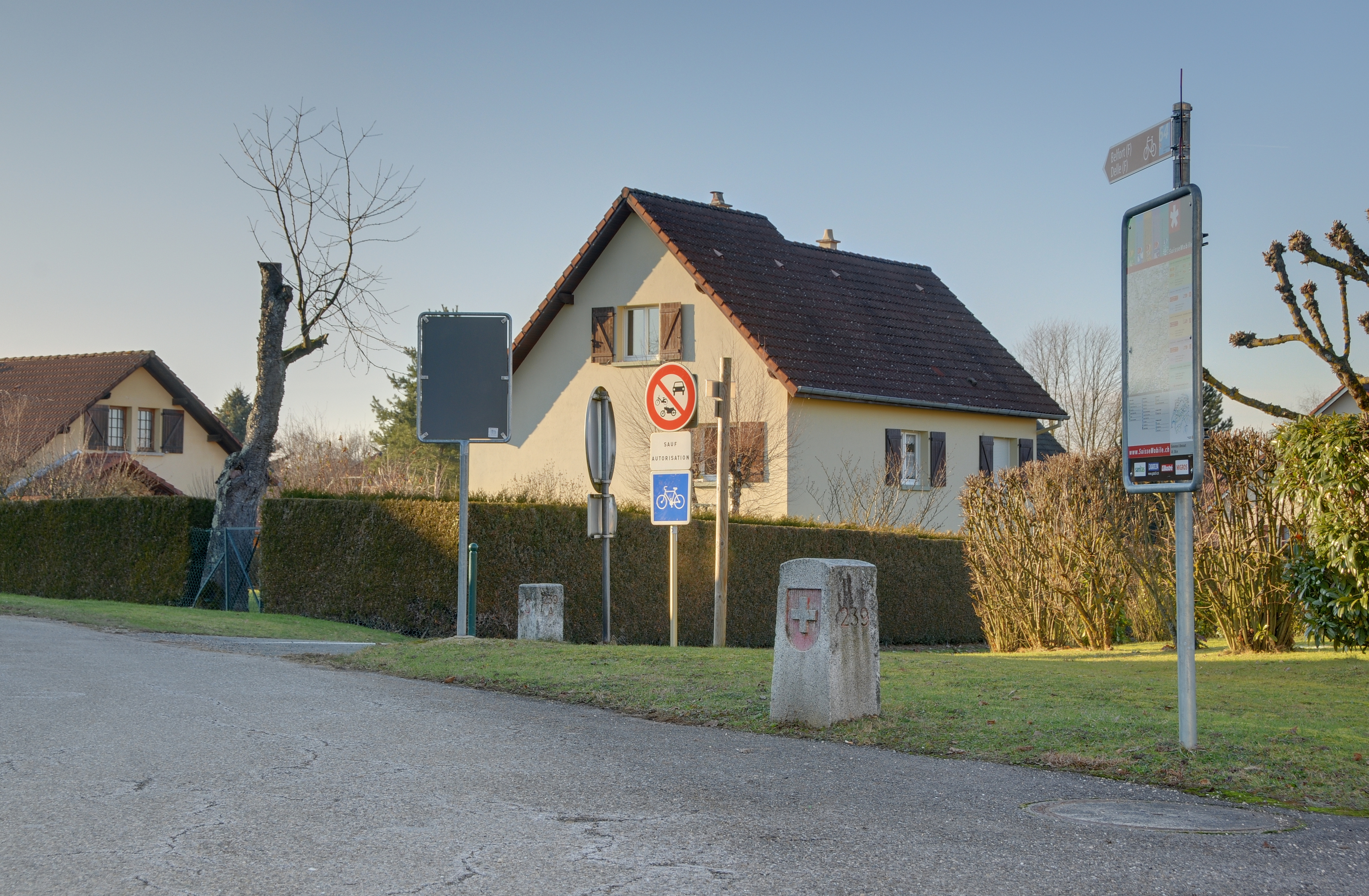 This photograph was taken with a Nikon D300 Endroit où la liaison cyclable franco-suisse traverse la frontière (HDR).